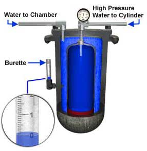 Picture is a diagram of a water jacket test. The site where the picture was found was updated as of 09/18/07. The article it should be in is Hydrostatic Tests. Site where image was found was